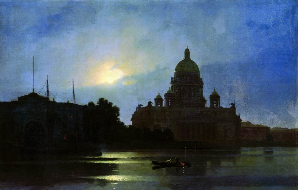 View of the Isaac Cathedral at moonlight night ((painting by Arkhip Kuindzhi, 1869)